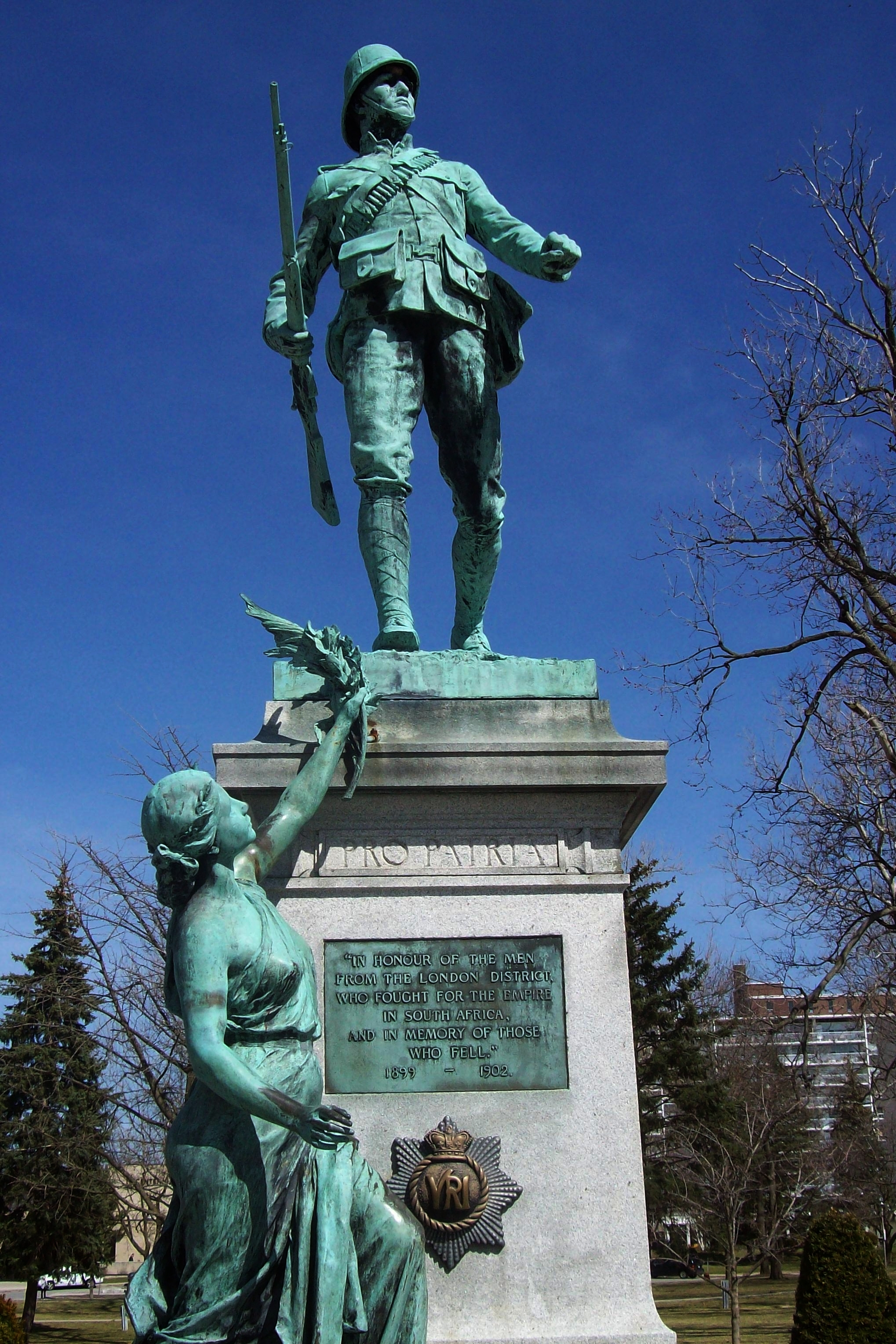 Boer War Memorial, Victoria Park (sculptor George Hill) London Ontario Canada.